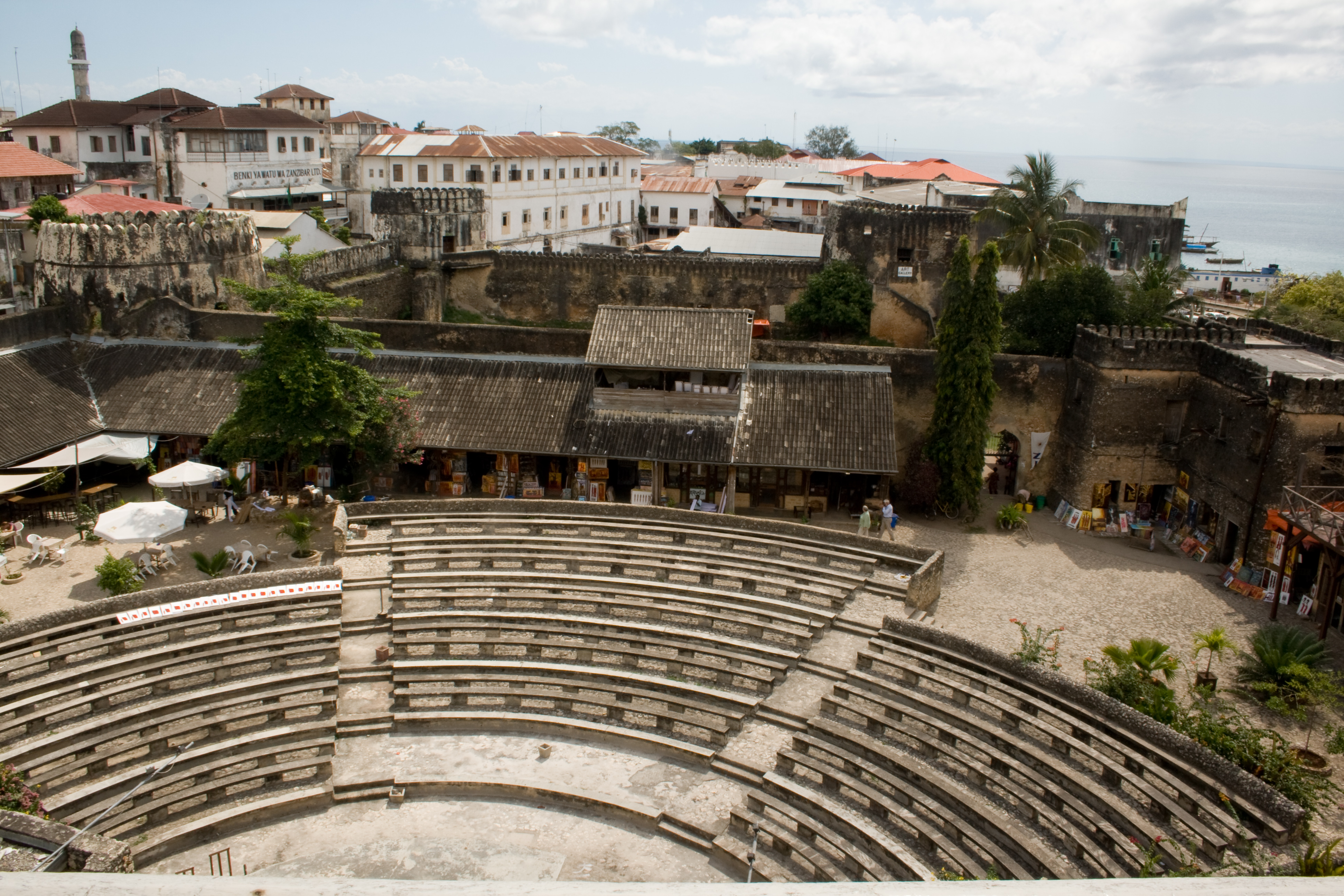 Arab fort of Stone Town, Zanzibar